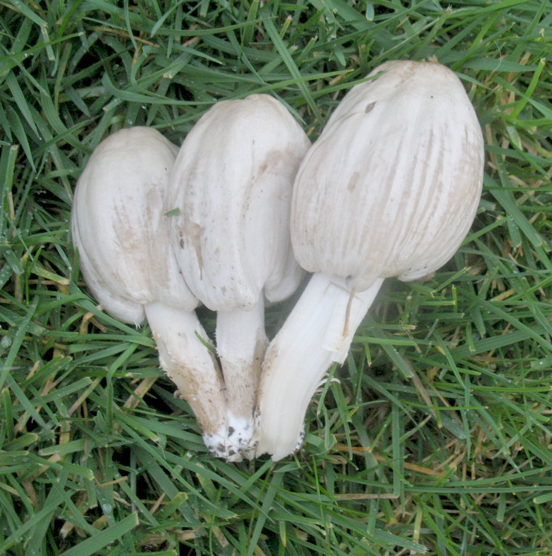 Coprinopsis atramentaria ((Bul.) Redhead, Vilgalys & Moncalvo) Location: Mountain View, Santa Clara Co., California, USA